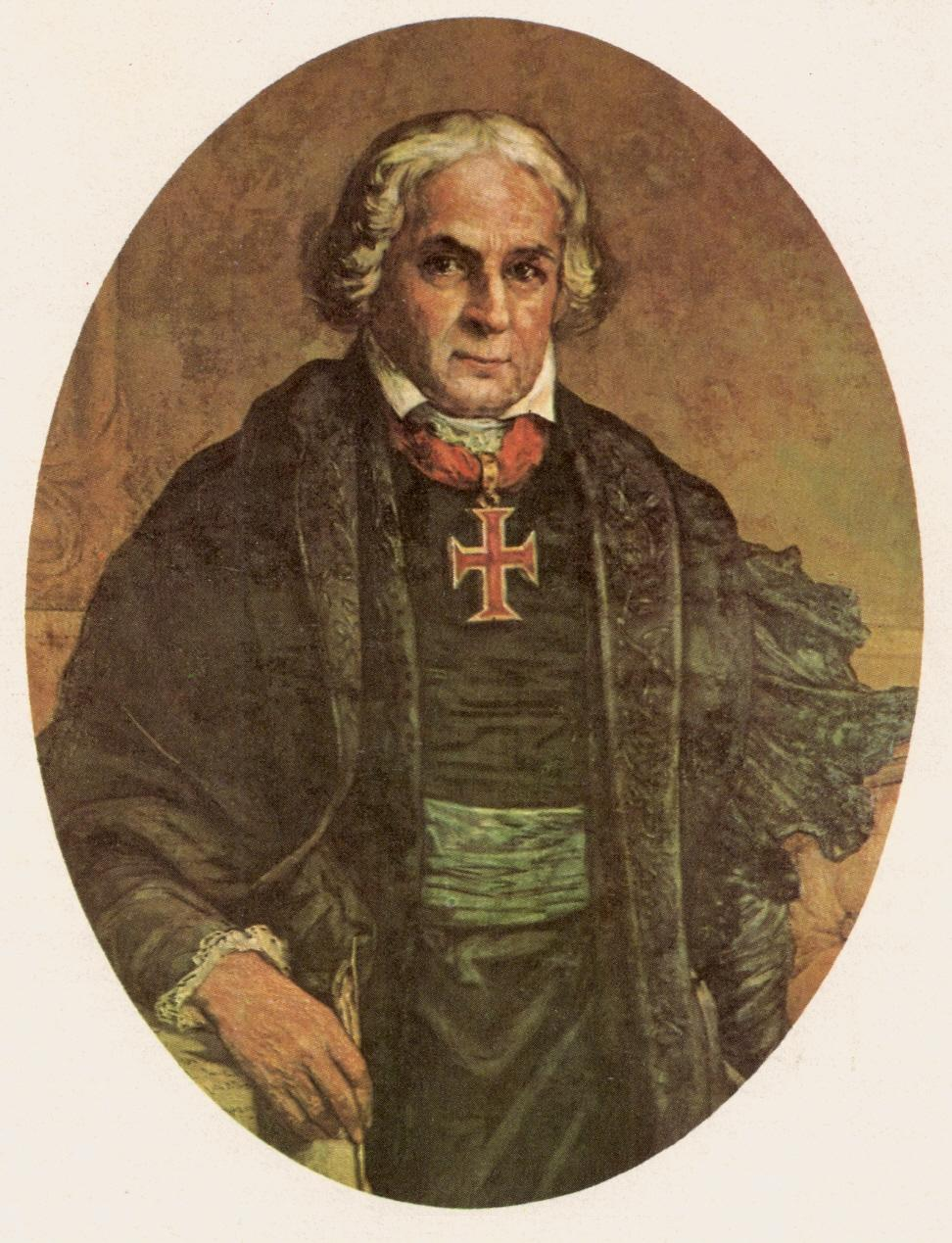 José Bonifácio de Andrada e Silva, Brazilian politician.